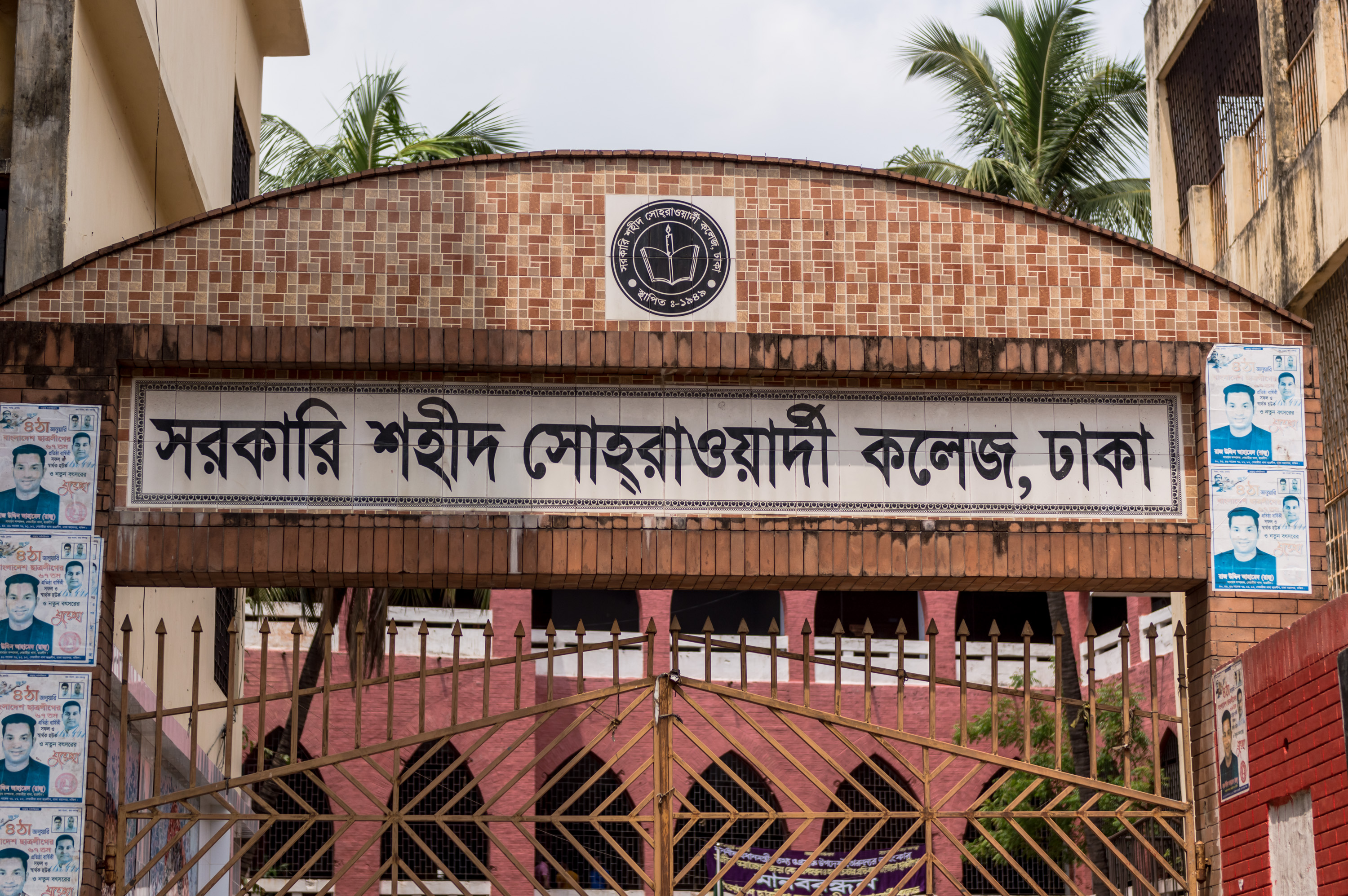 সরকারি শহীদ সোহরাওয়ার্দী কলেজ - গেট